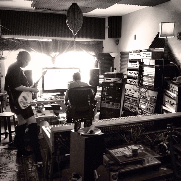 “ guitar tracking with the #peepingtomboys at #bldgs @bacon_invader #vox #recordingstudio” —Vacant Fever Peeping Tomboys BLDGs (recording studios) : gear